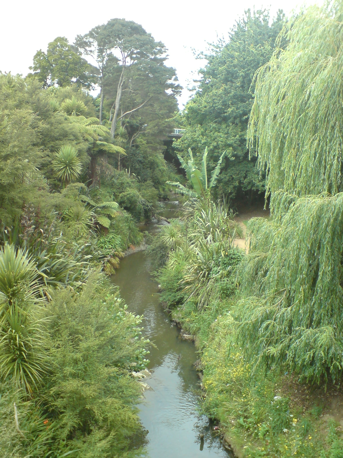 A small stream (Oratia Stream) winding its way through a gully next to Westfield WestCity in Henderson, Waitakere City, New Zealand.